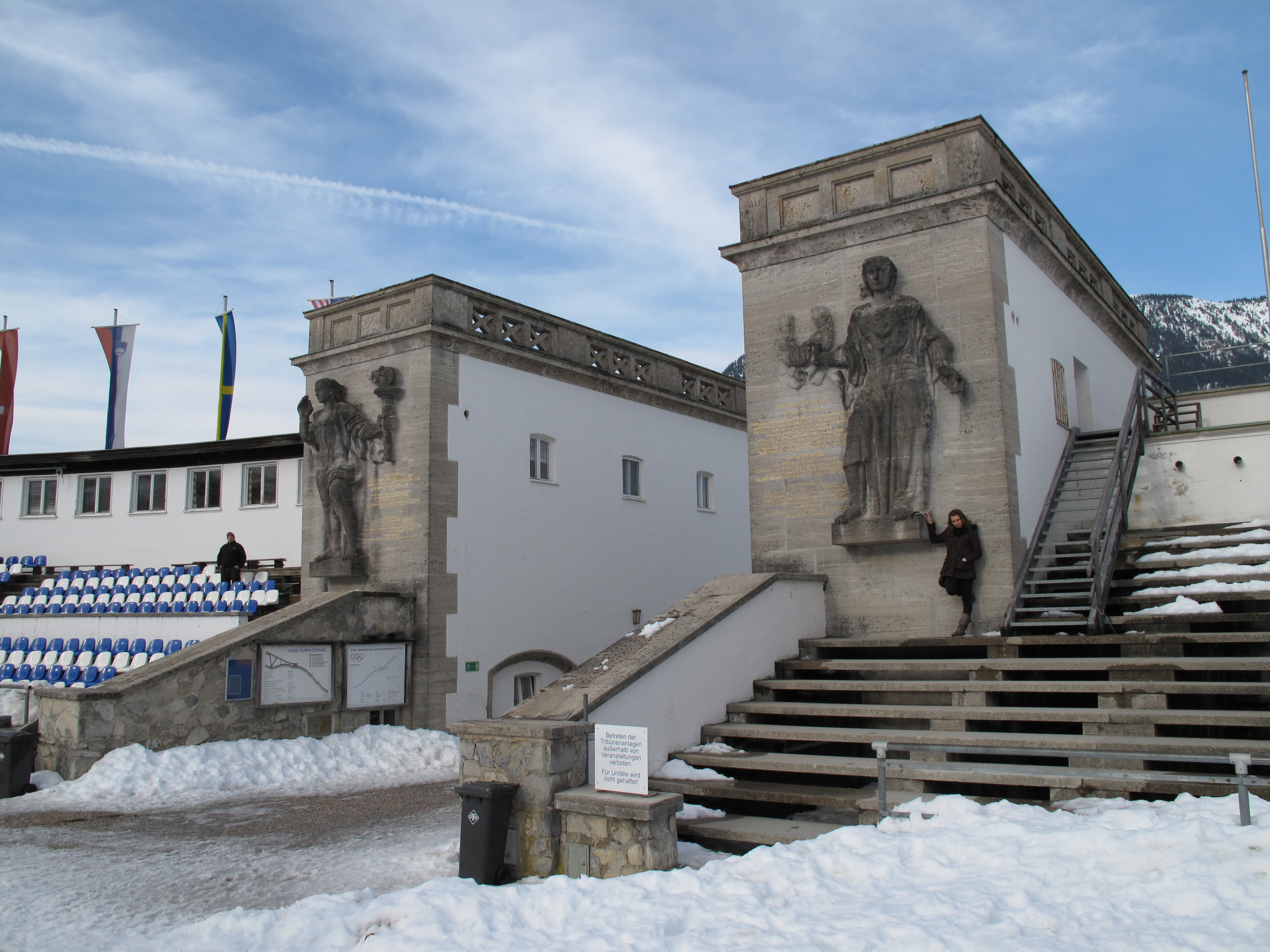 The entrance to the stadium of the Große Olympiaschanze in Garmisch-Partenkirchen.